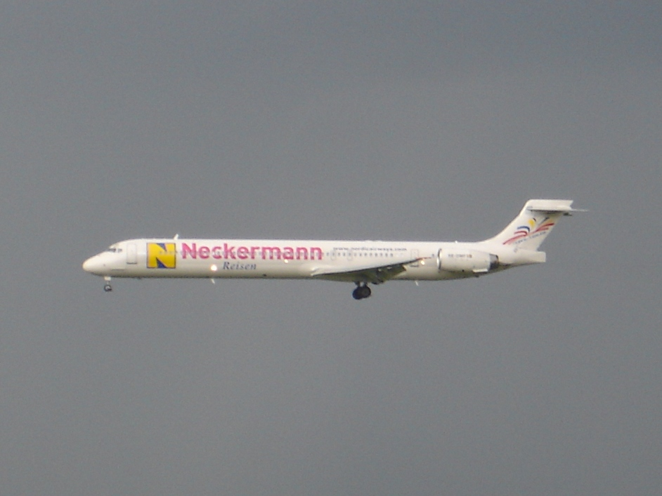 Nordic Leisure McDonnell Douglas MD-90 in Munich